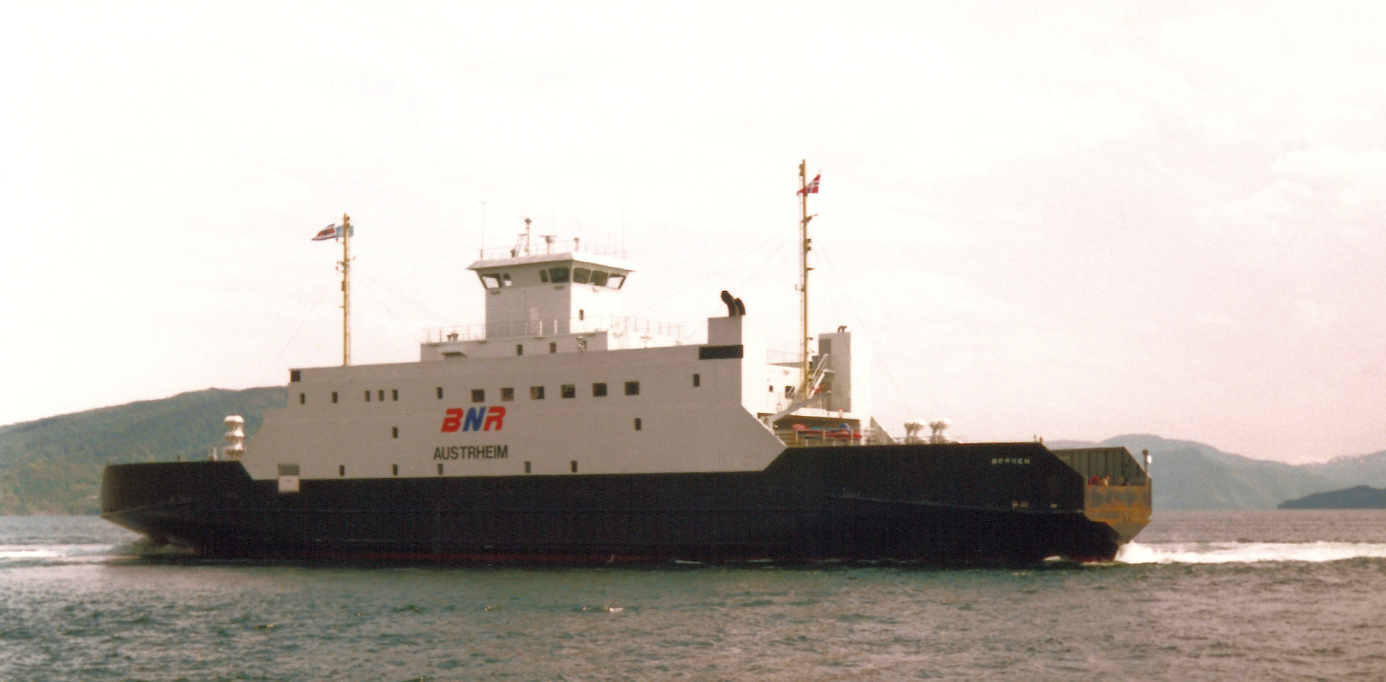 MF «Austrheim» (1986)